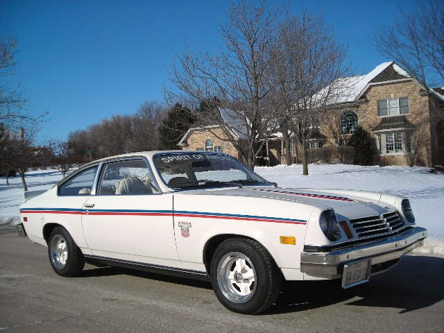 1974 Chevrolet Vega Spirit of America